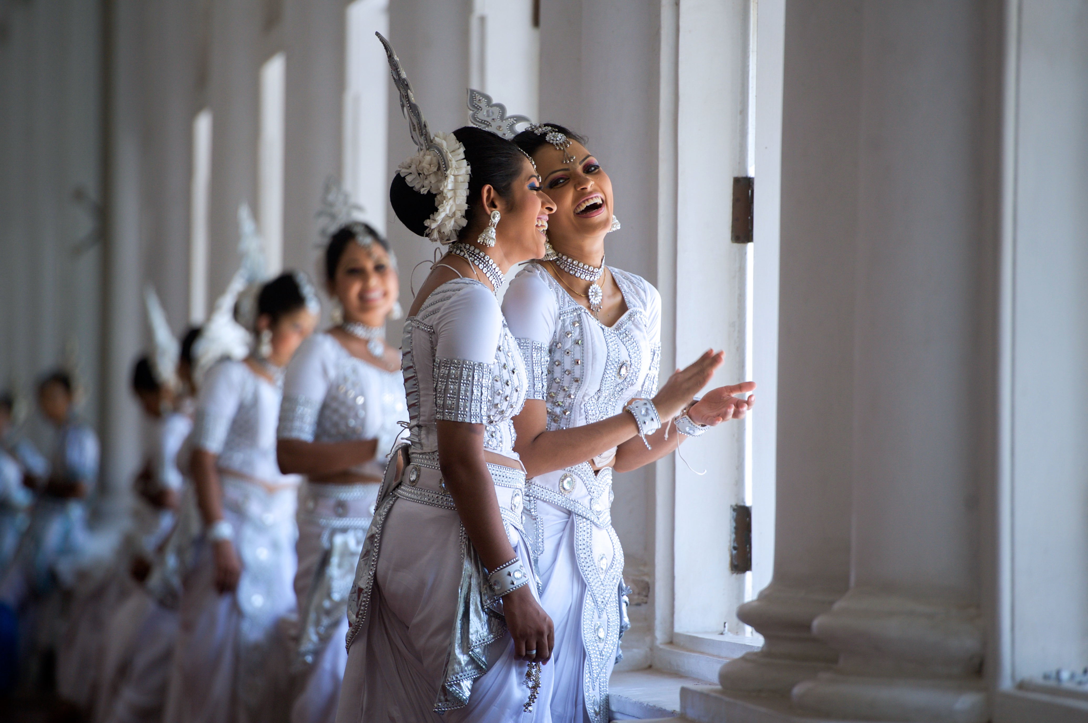 Two women in traditional Kandyan dress laugh while waiting as U.S. Secretary of State John Kerry meets with Sri Lankan Foreign Minister Mangala Samaraweera at the Ministry of Foreign Affairs in Colombo, Sri Lanka, on May 2, 2015, before the Secretary met with President Maithripala Sirisena and Prime Minister Ranil Wickremesinghe. [State Department Photo/Public Domain]